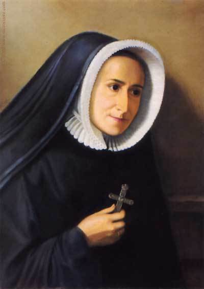 St. Sophie Barat, painting ca. 1870, based on Savinient Petit's portrait